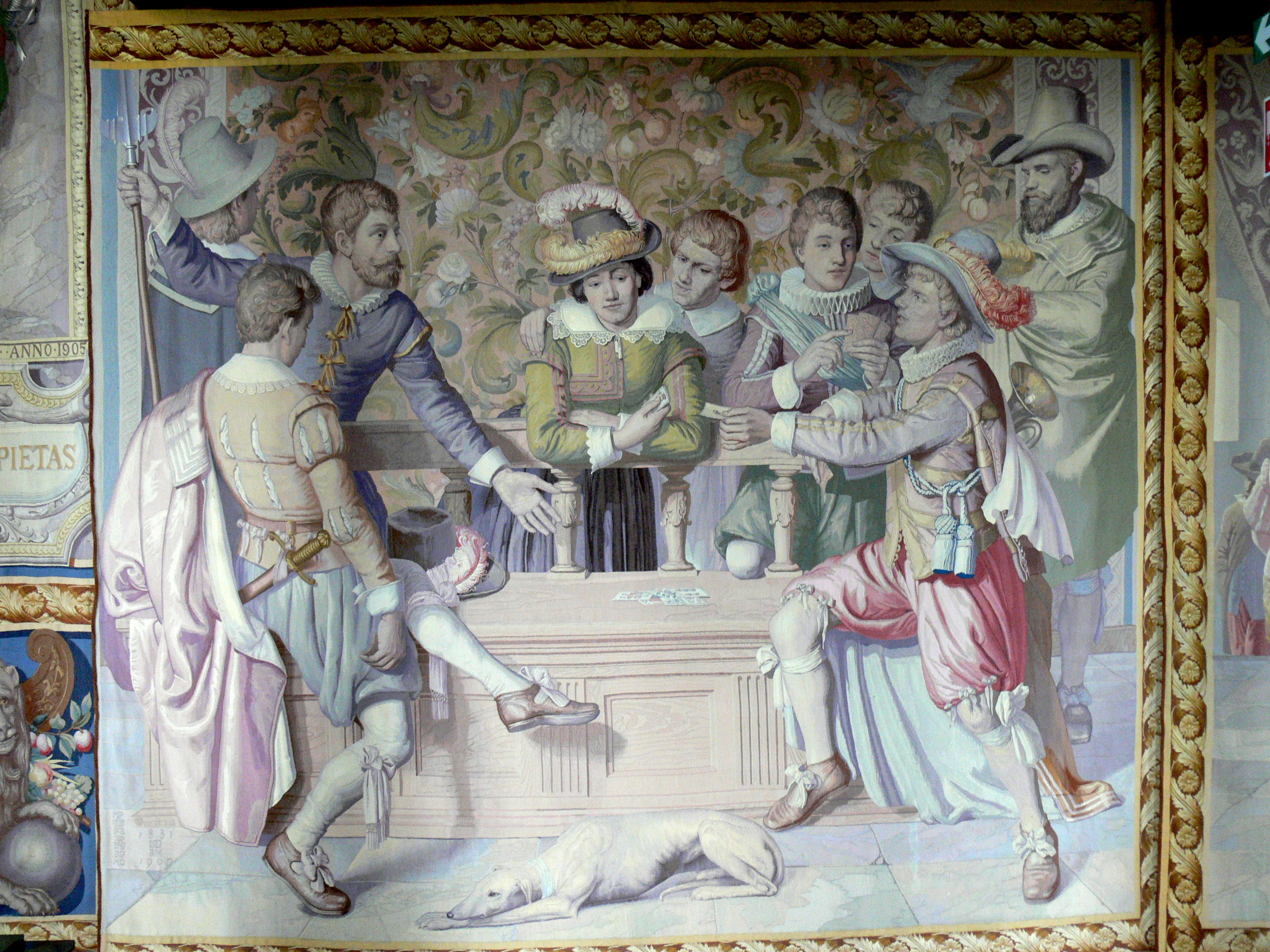 Frederiksborg castle. Great Hall: Gobelin showing card players.